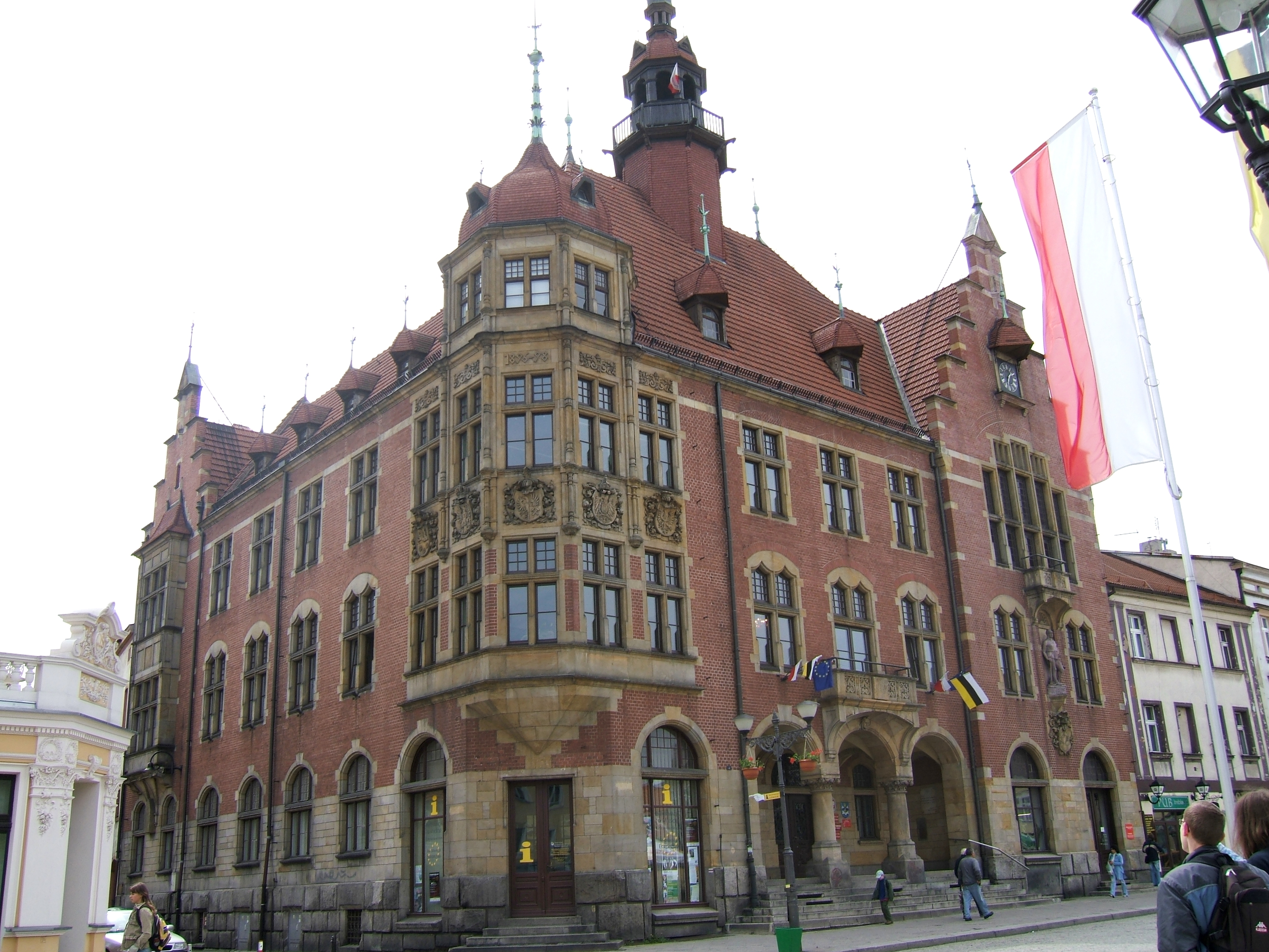 The town hall in Tarnowskie Góry